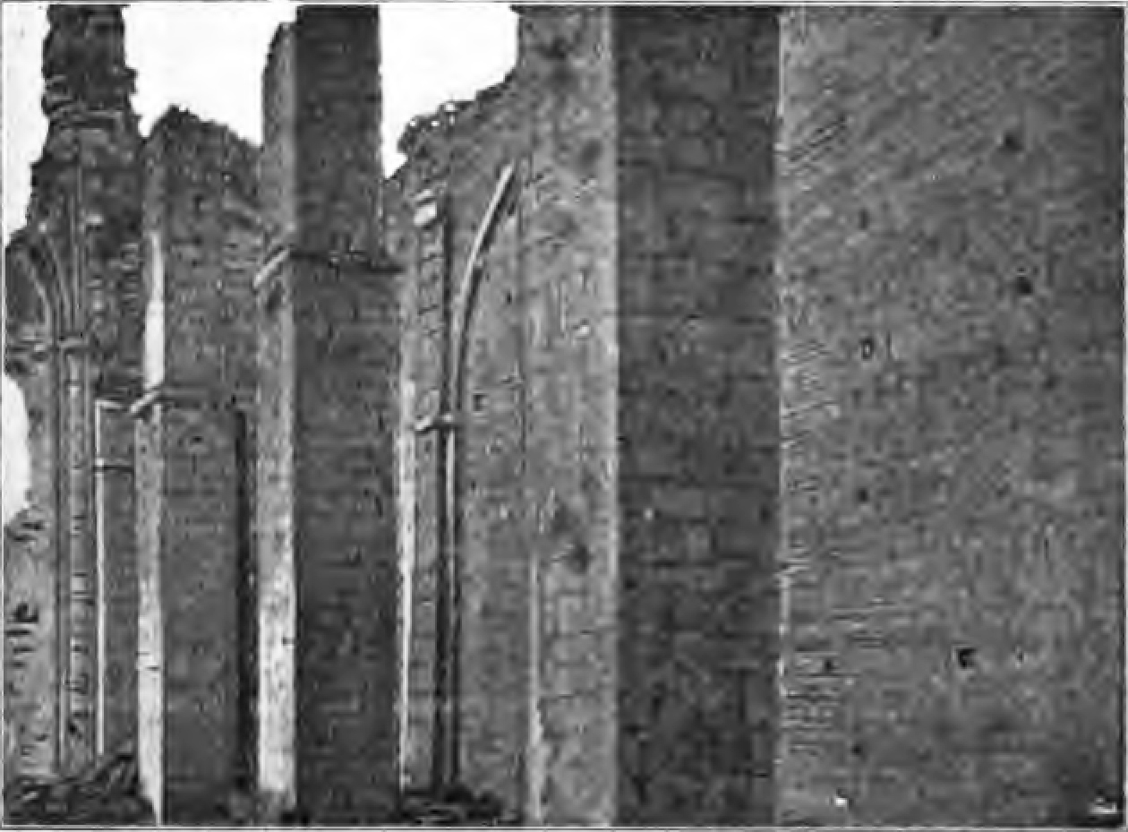 Ruins of the church of Shirq in Northern Albania, ca. 1900 – image taken from the book of Theodor Ippen "Skutari und die nordalbanische Küstenebene", published in 1907